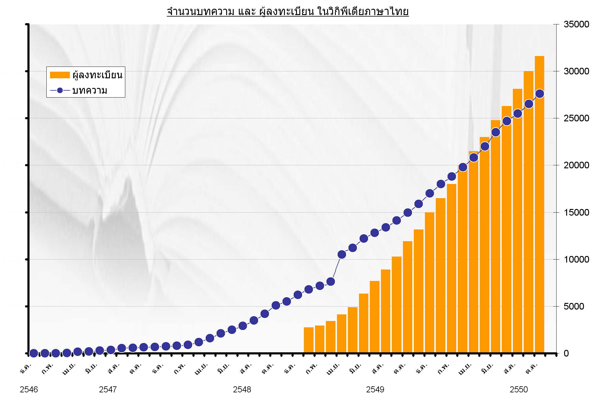 Thai Wikipedia statistics as of October 4, 2007. The graph was created in Microsoft Excel. The original file can be found from Thai Wikipedia (at Image:Wiki Graph TH.png)